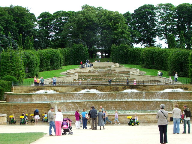 The Cascade. Water cascade in Alnwick Garden